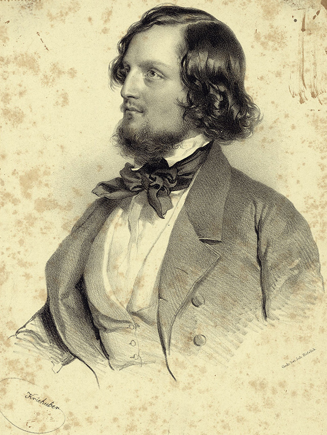 Portrait of Giulio Baldassarre Briccialdi, composer (1818-1881), 1842.